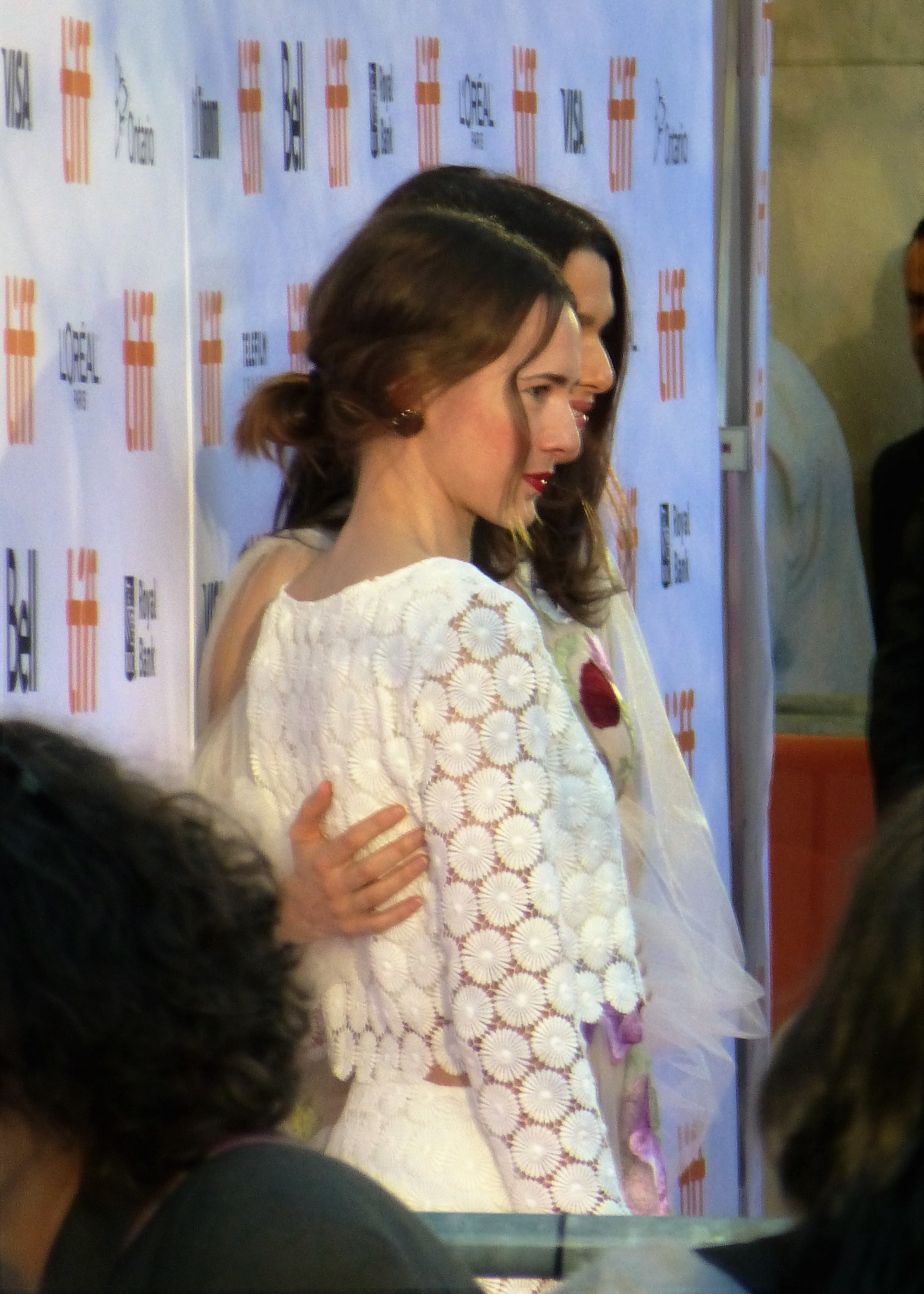 Caren Pistorius at the premiere of Denial, 2016 Toronto Film Festival